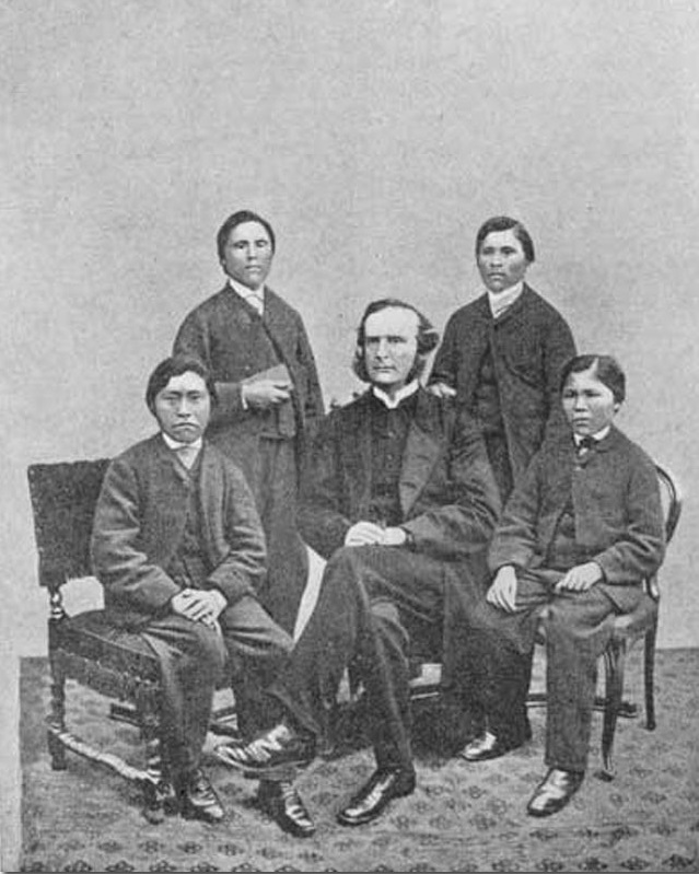 Waite Stirling sitting among Yagan indians